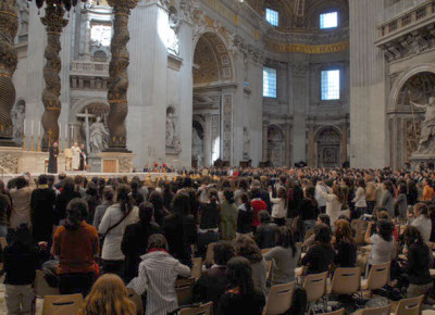 Audience of Benedict XVI for the UNIV students